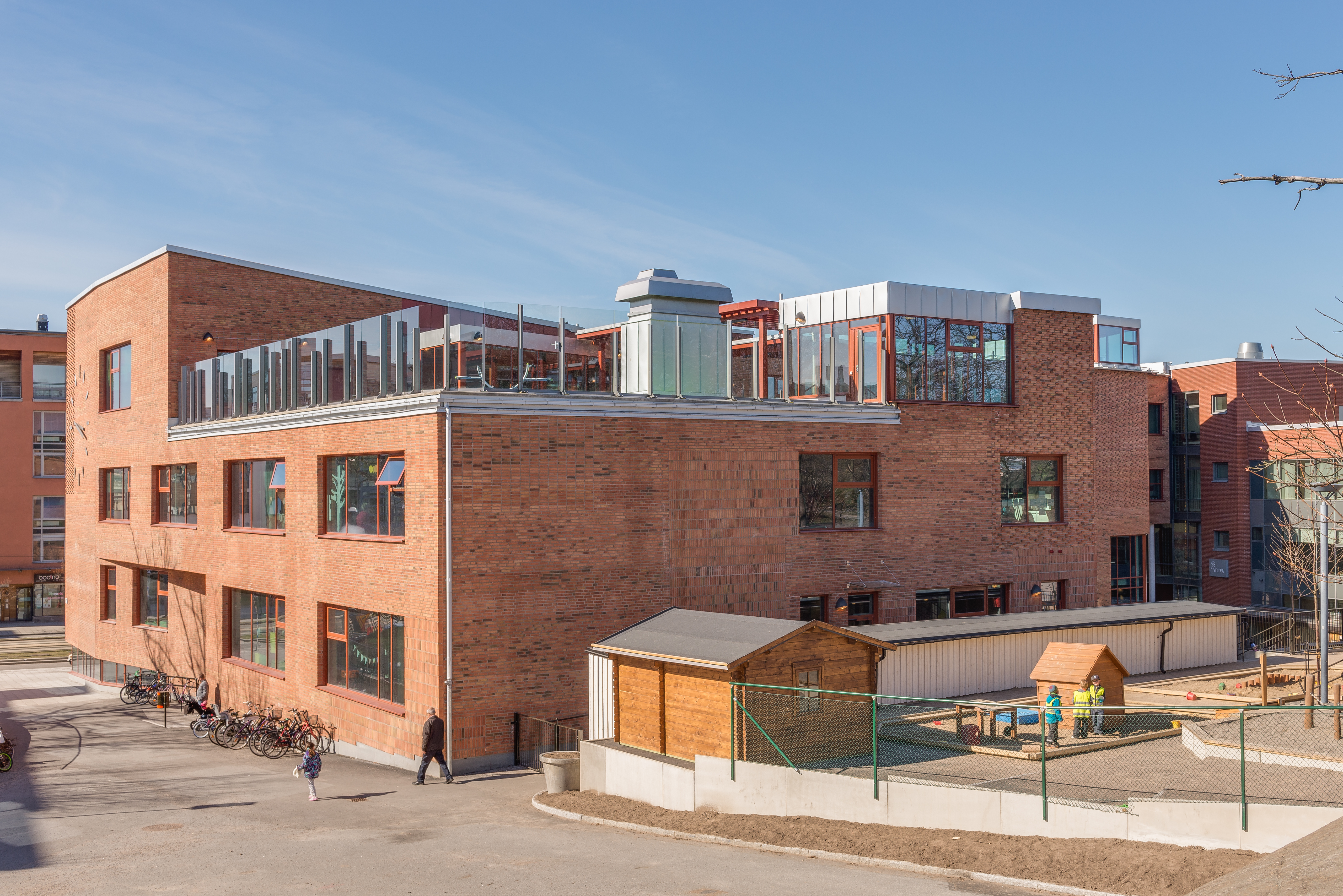 Lugnets skola (school). Södra Hammarbyhamnen, Stockholm. Architects: AIX Arkitekter.